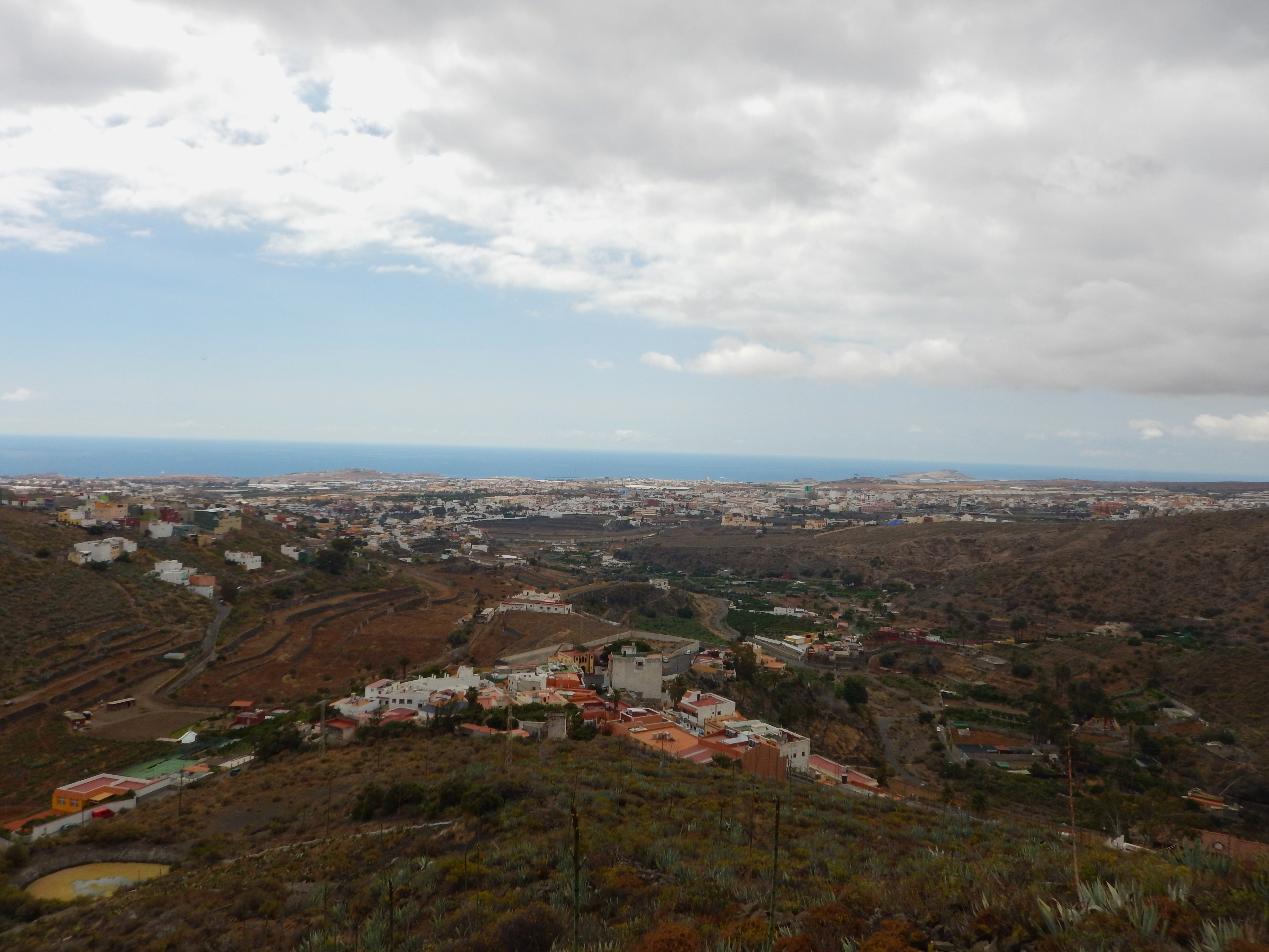 Views from Chincheta, in the Telde ravine.